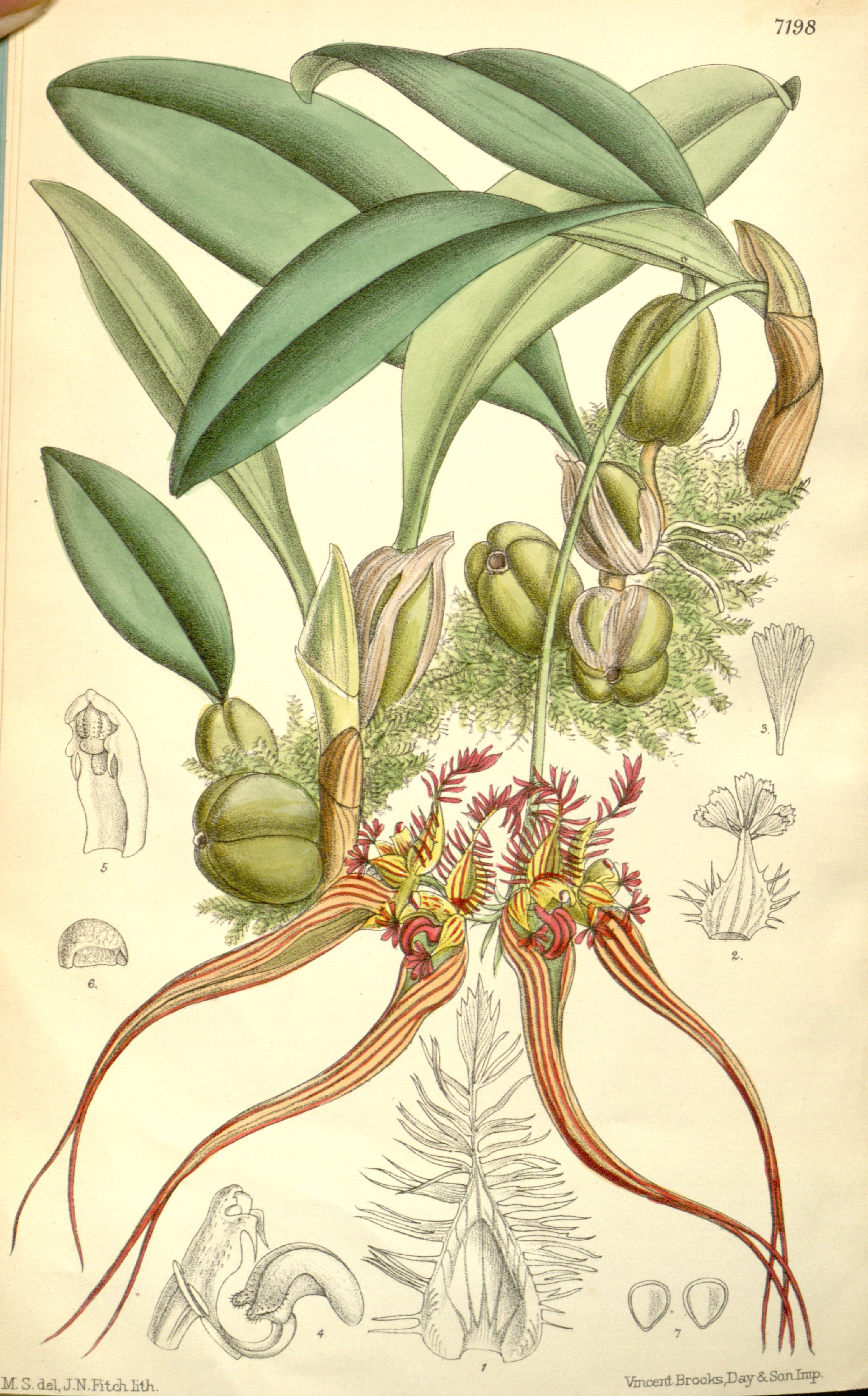 Illustration of Bulbophyllum wendlandianum (as syn. Cirrhopetalum collettii)